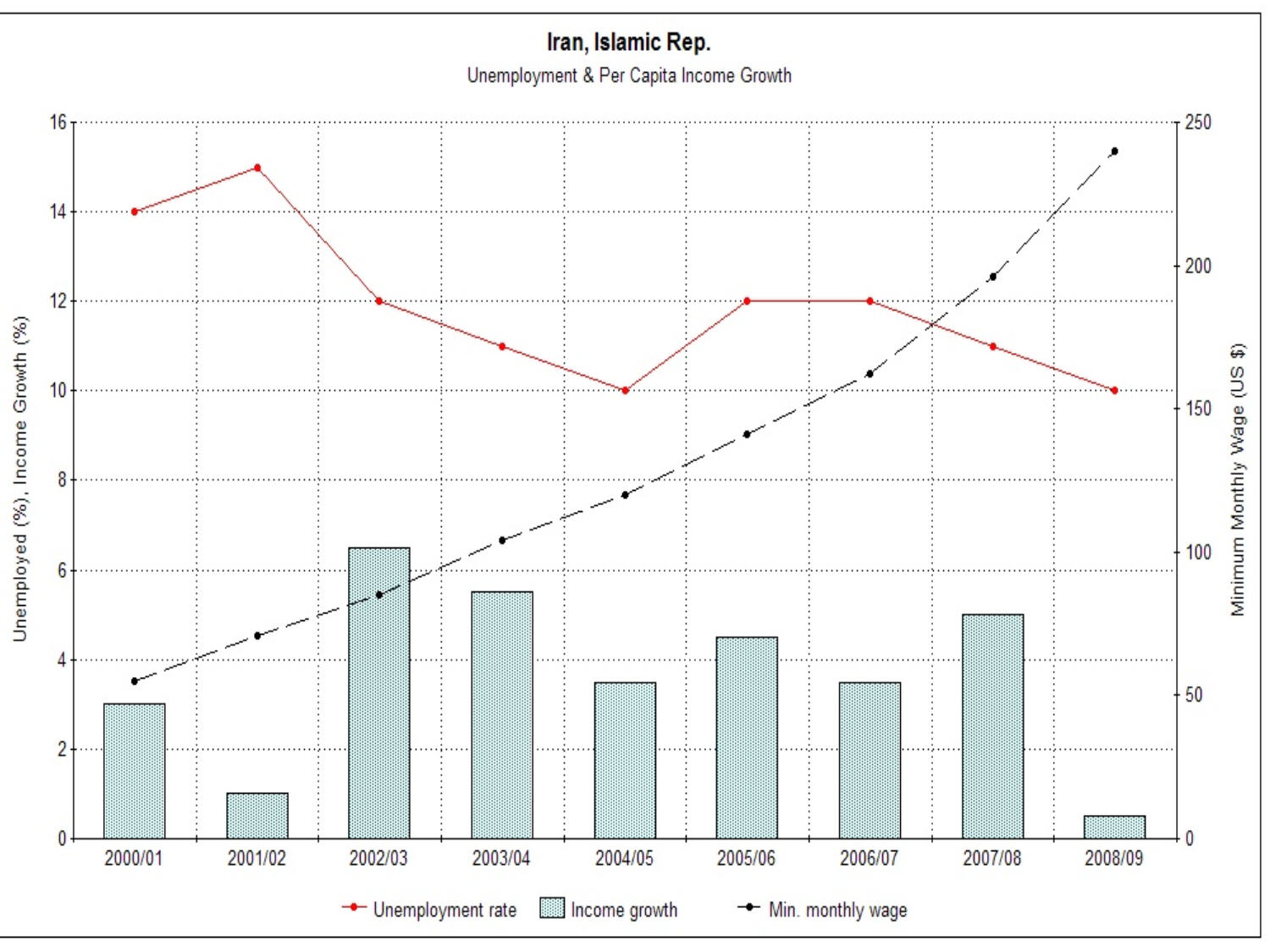 Iran (2000-2009): (RHS) Minimum Monthly Wage ($); (LHS) Per Capita Income Growth (%) and Official Unemployment rate (%).